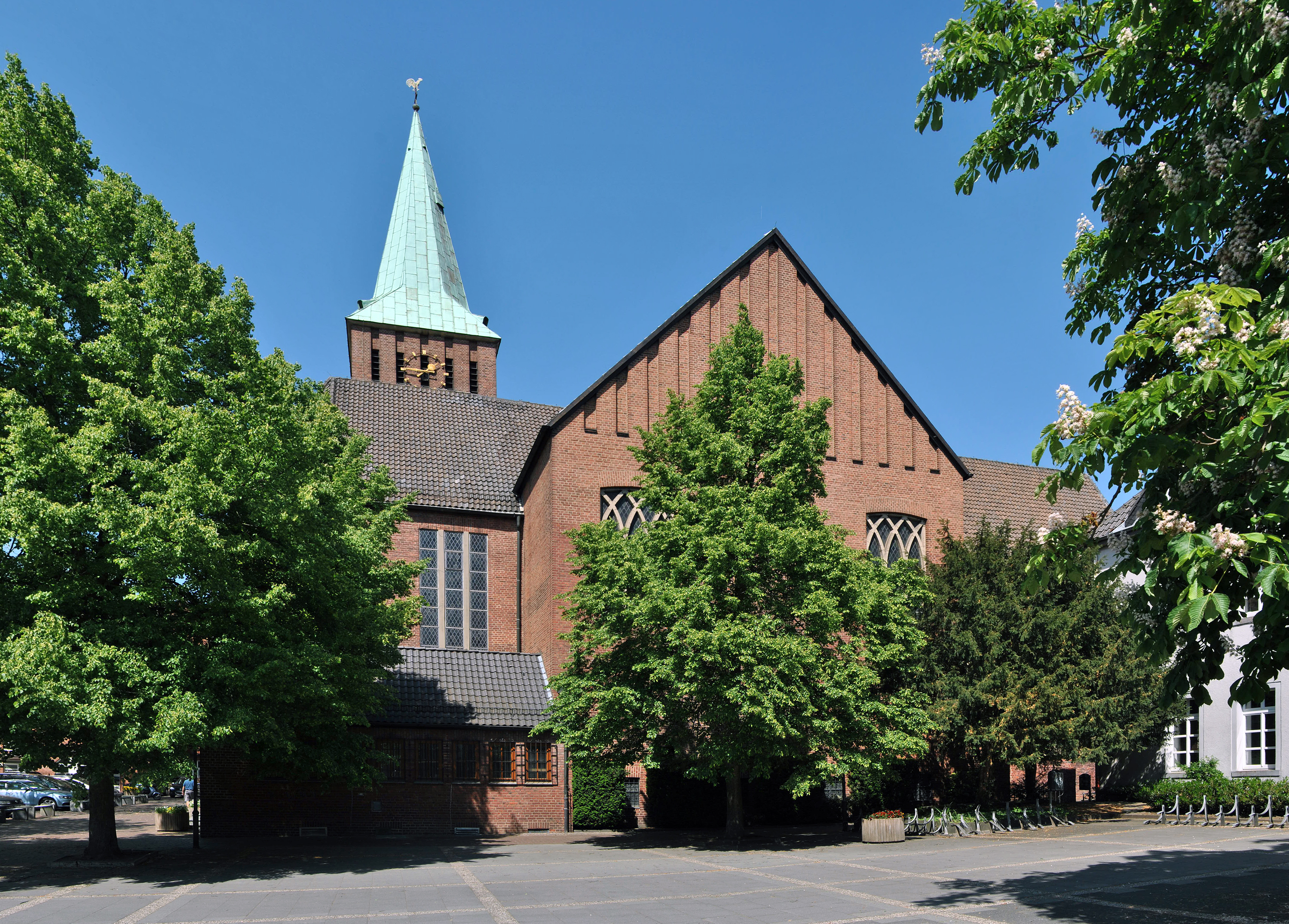 Dinslaken (North Rhine-Westphalia, Germany) – Catholic Vincent of Saragossa Church – south side This image shows a heritage building in Germany, located in the North Rhine-Westphalian city Dinslaken (no. 7). This photograph was taken with a Nikon D3000